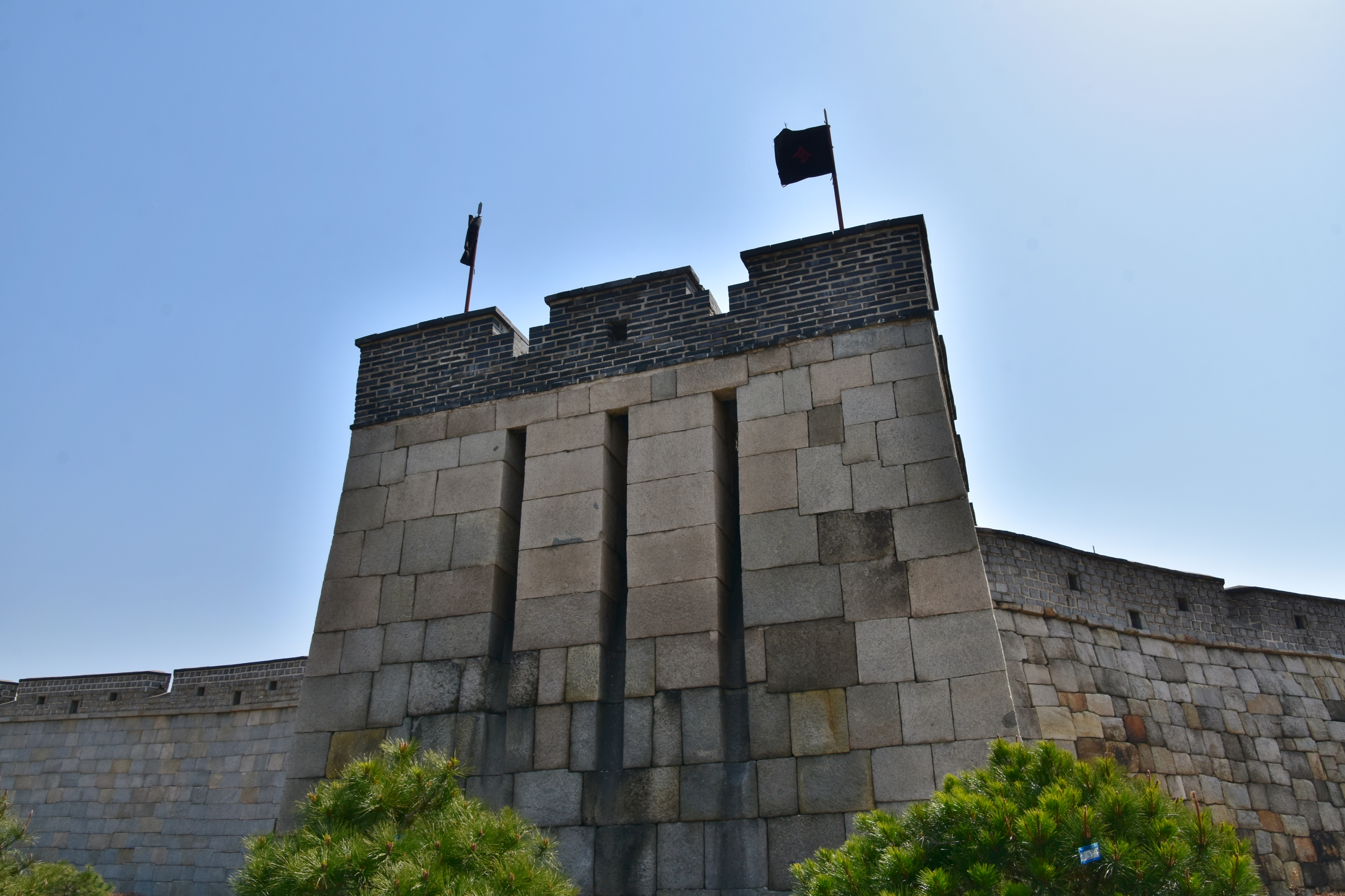 Fortifications of Suwon, late 18th century (35)